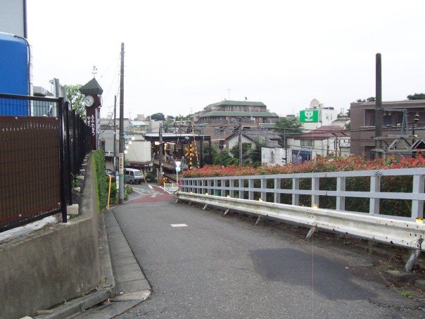 A neighborhood of Tokyo, looking down on the station at Kugayama. }